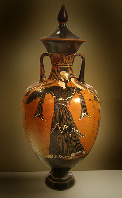 Greek amphora, National Archaeological Museum of Athens, showing the goddess Athena.